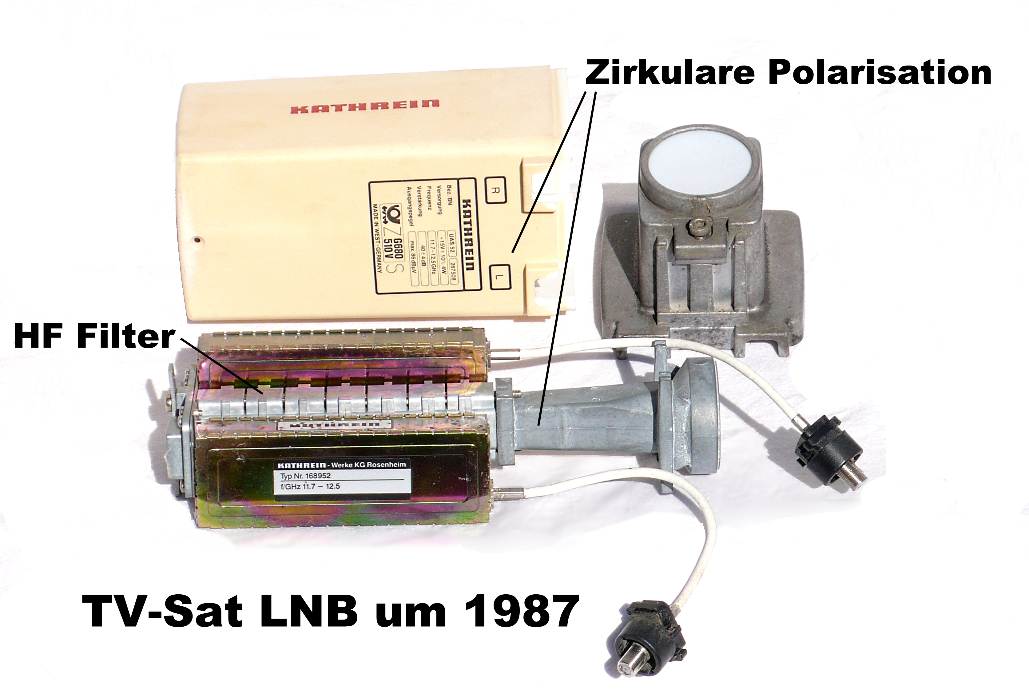 TV-Sat LNB Kathrein 1987